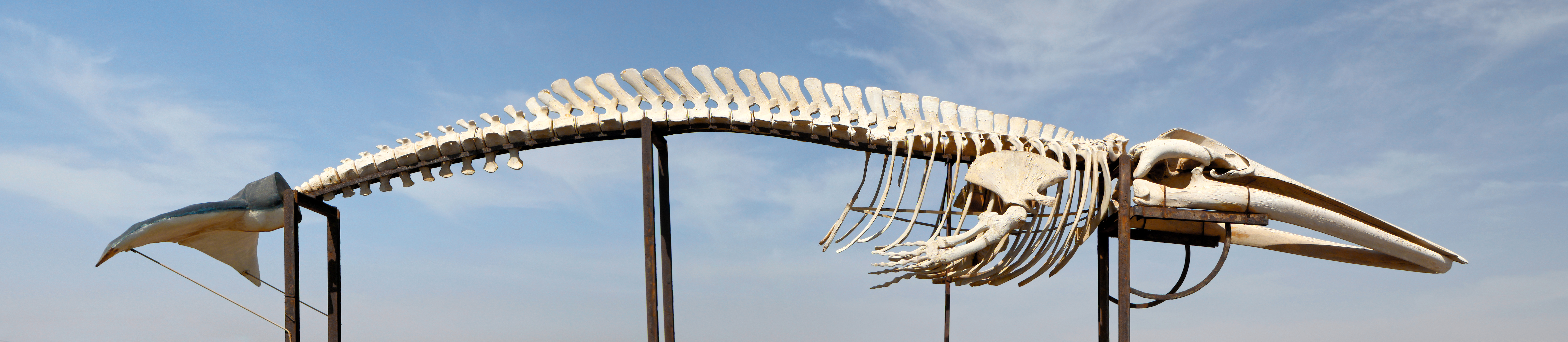 Skeleton of a Fin whale (Balaenoptera physalus), Salinas del Carmen, Fuerteventura, Canary Islands